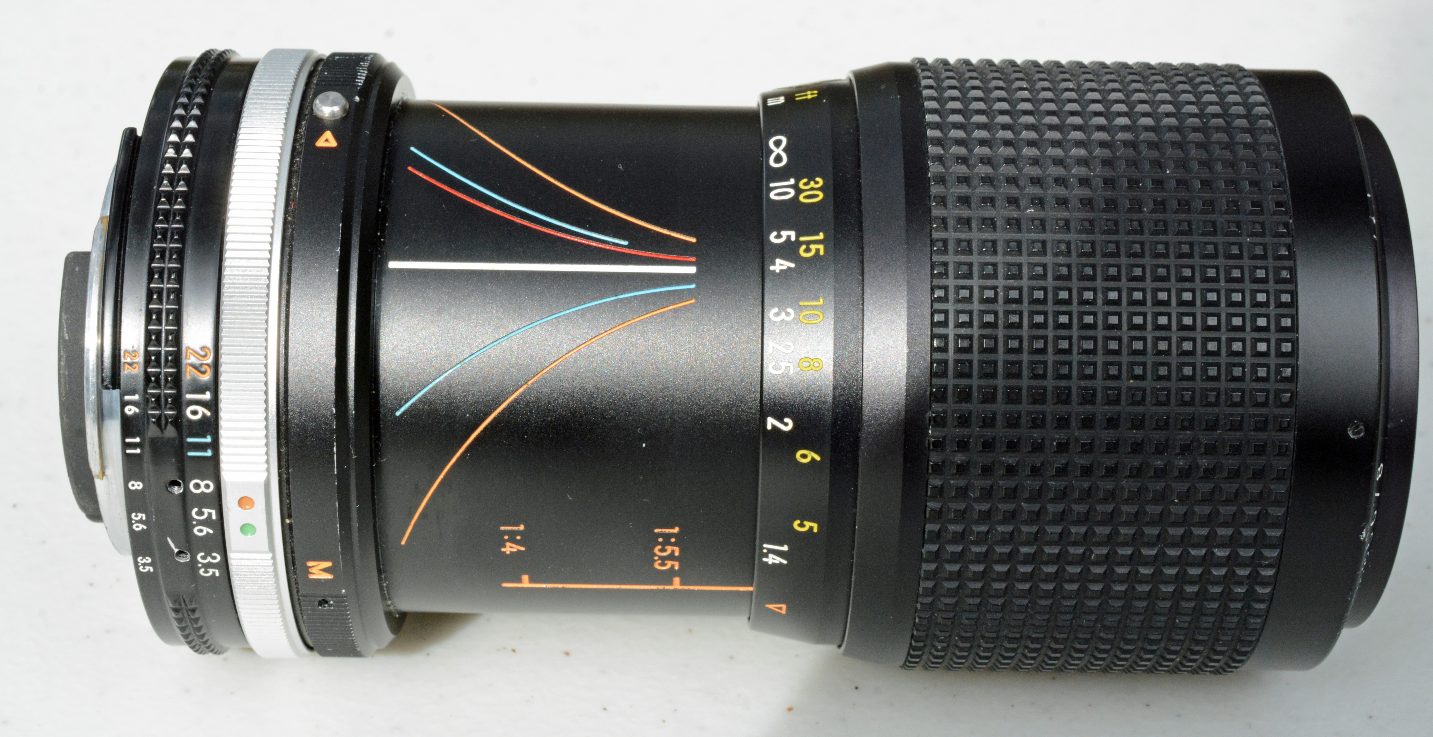 Nikon 35-105mm micro push-pull zoom lens, manual focus